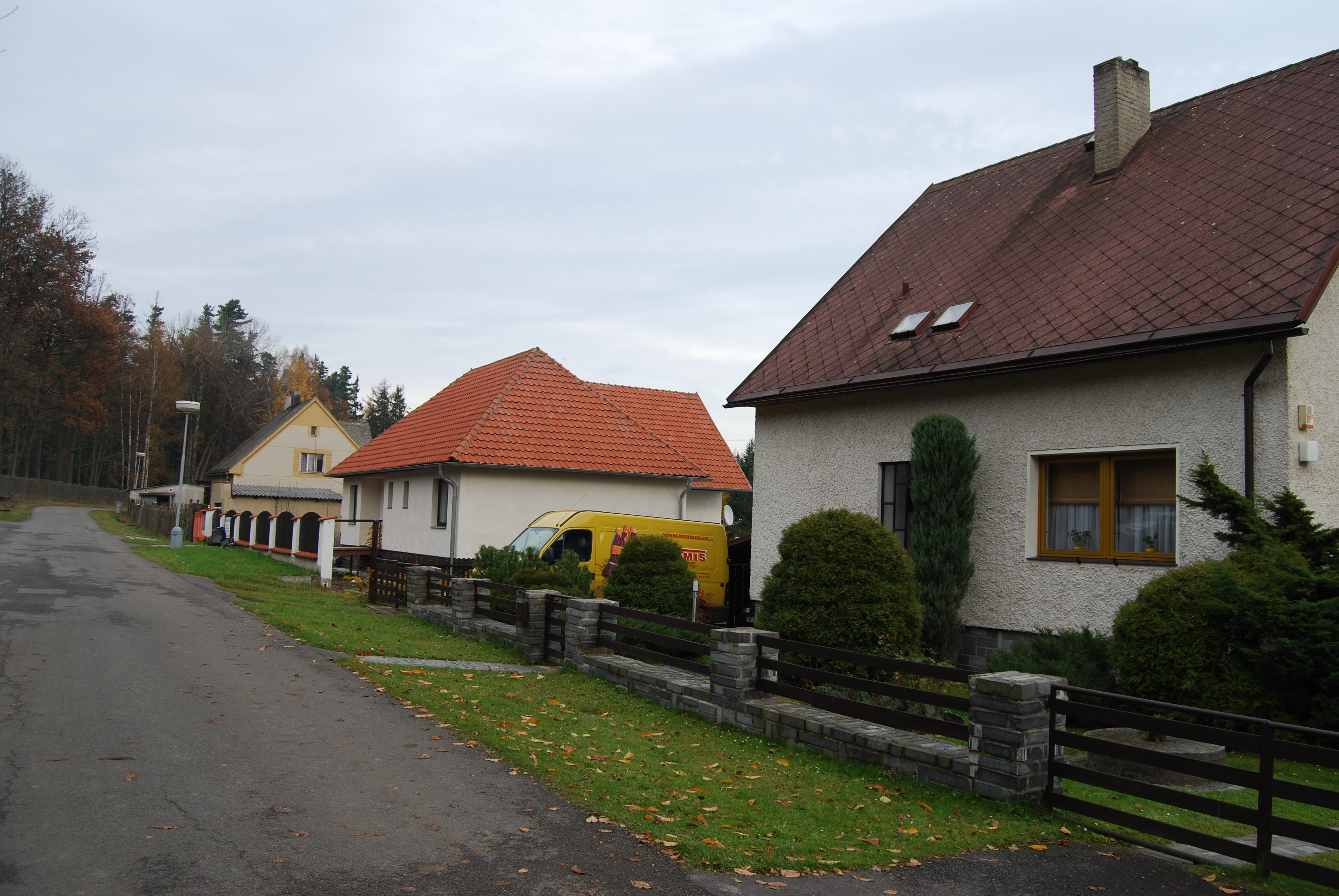 Vysoká u Příbramě in Příbram District, Czech Republic.